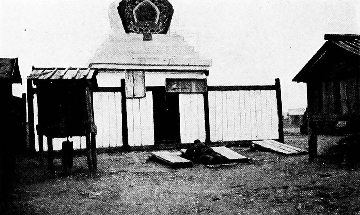 Photo from Across Mongolian Plains A Naturalist's Account of China's "Great Northwest"